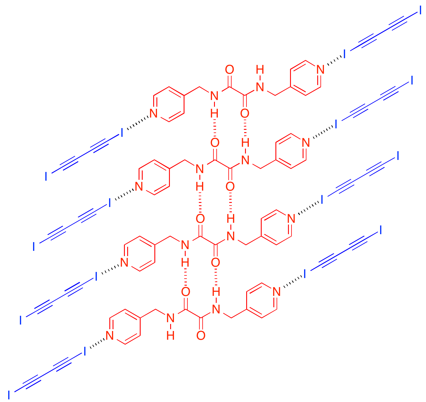 C4I2 and a pyridal host in a co-crystal as a precursor to poly(diiododiacetylene)